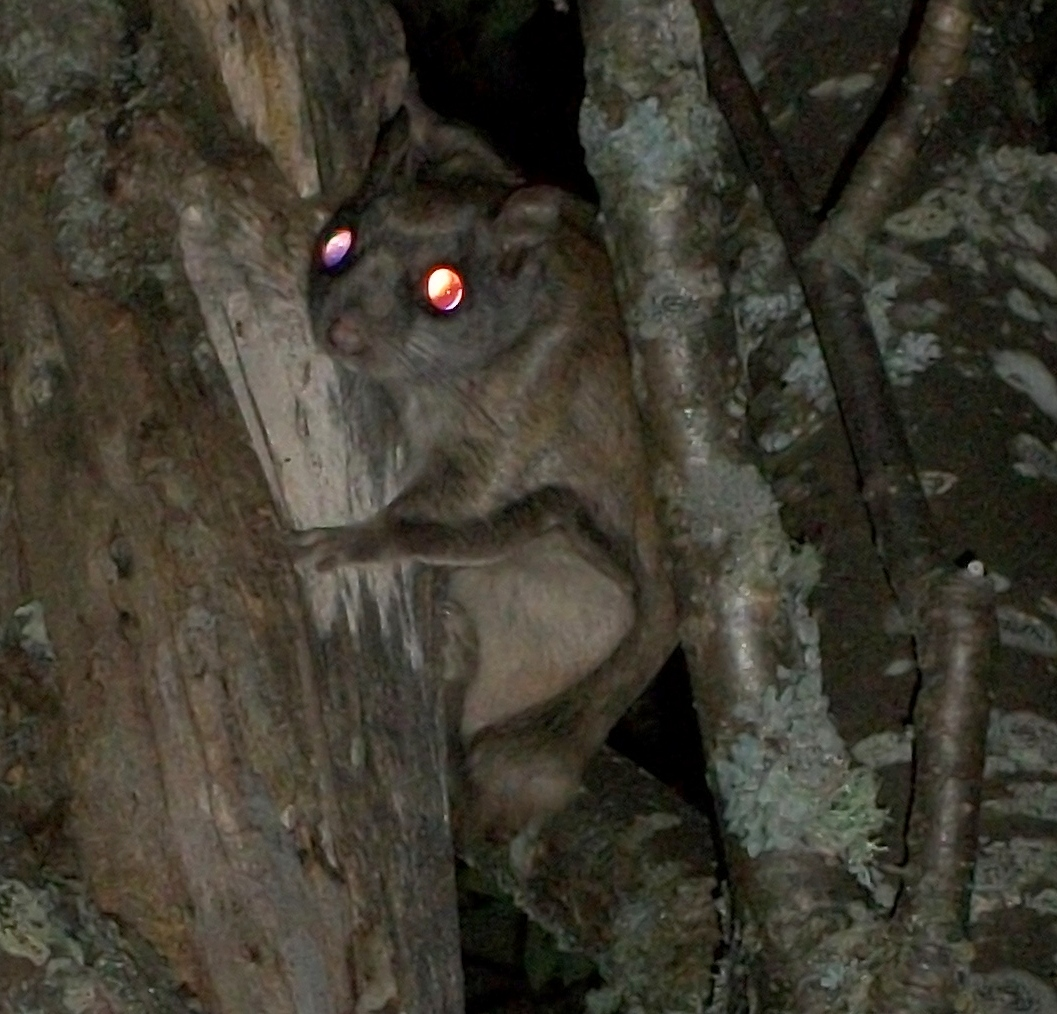 Northern Flying Squirrel picture took in Northern Ontario, just above Lake Superior.